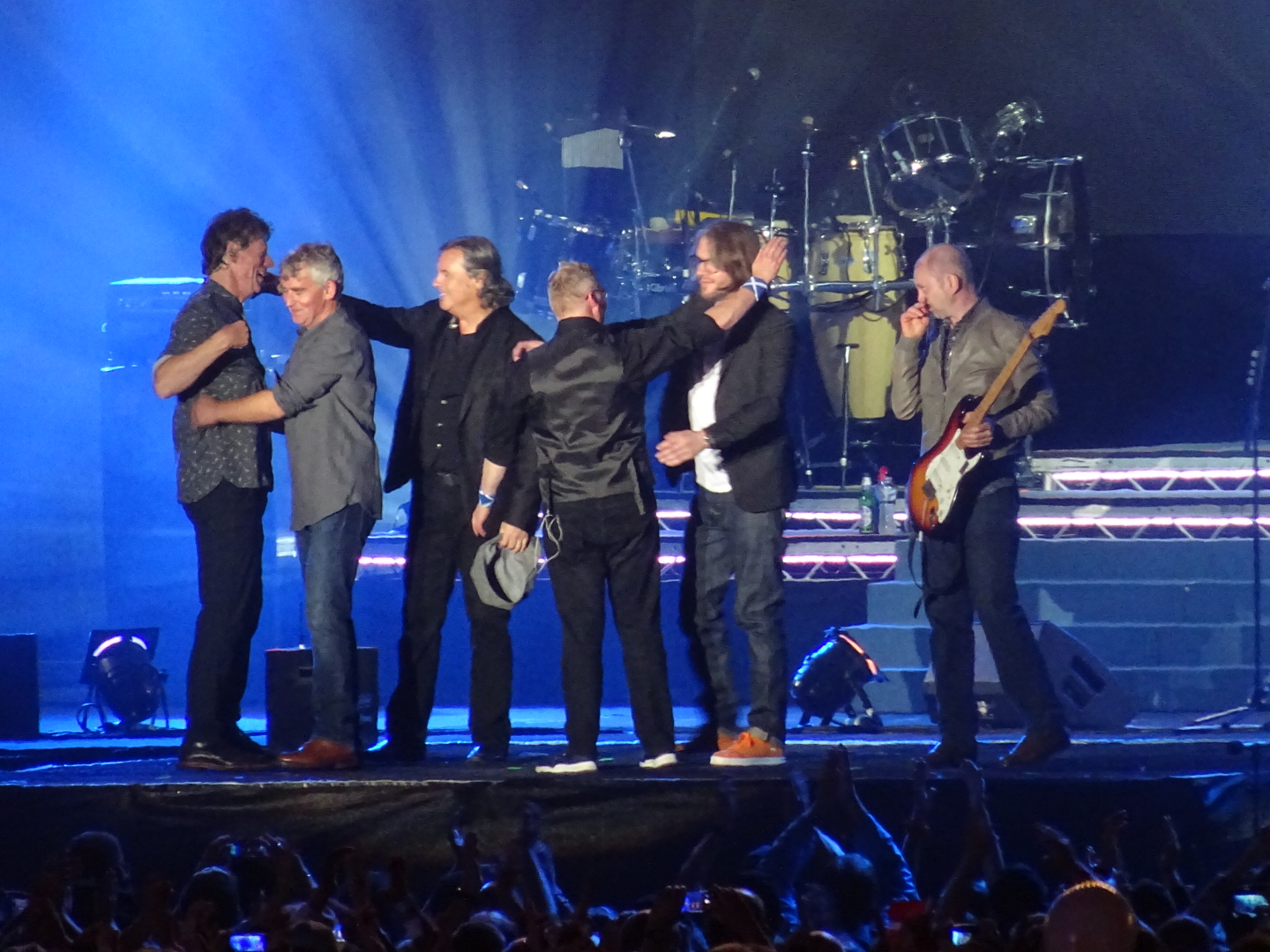 Runrigs farewell at Stirling, 18th August 2018